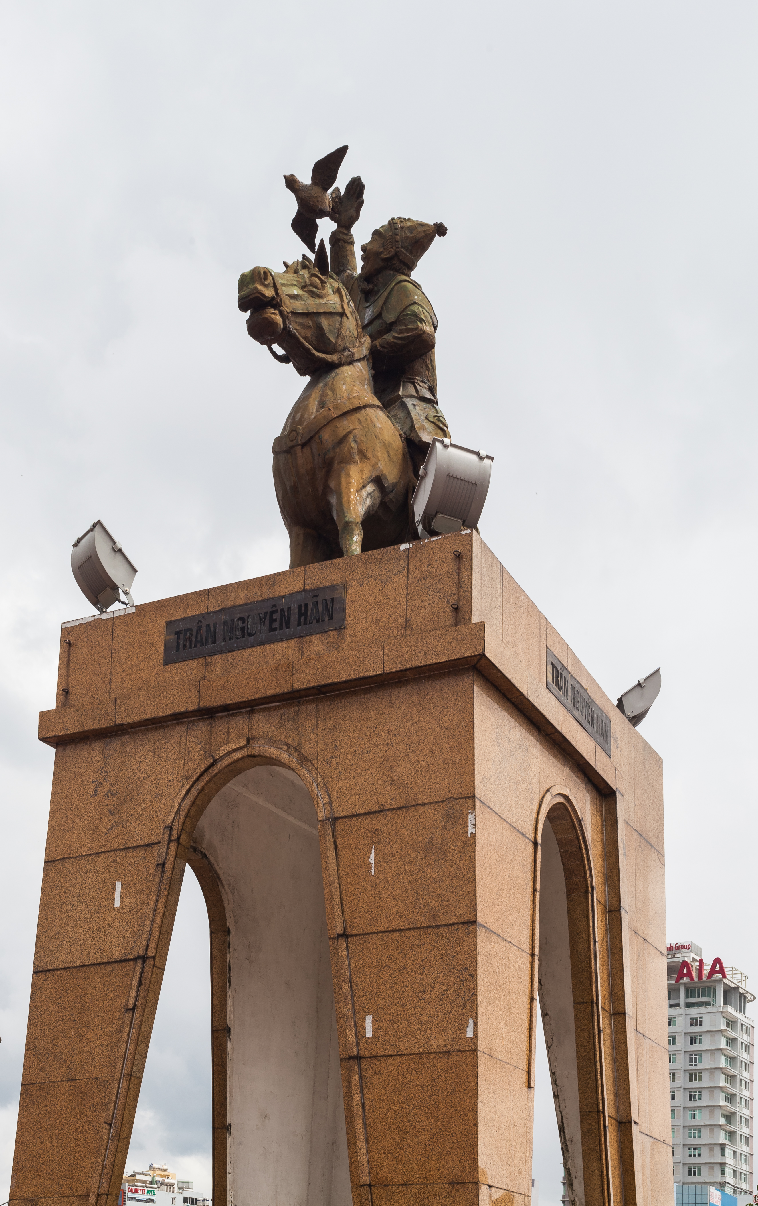 Statue of Trần Nguyên Hãn, in front of Ben Thanh Market, Ho Chi Minh City, VietnamTiếng Việt: Tượng đài Trần Nguyên Hãn ở phía trước chợ Bến Thành, Thành phố Hồ Chí Minh, Việt Nam.